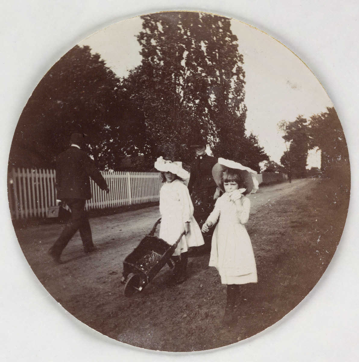 Children walking with a wheelbarrow, about 1890 Collection of National Media Museum/Kodak Museum